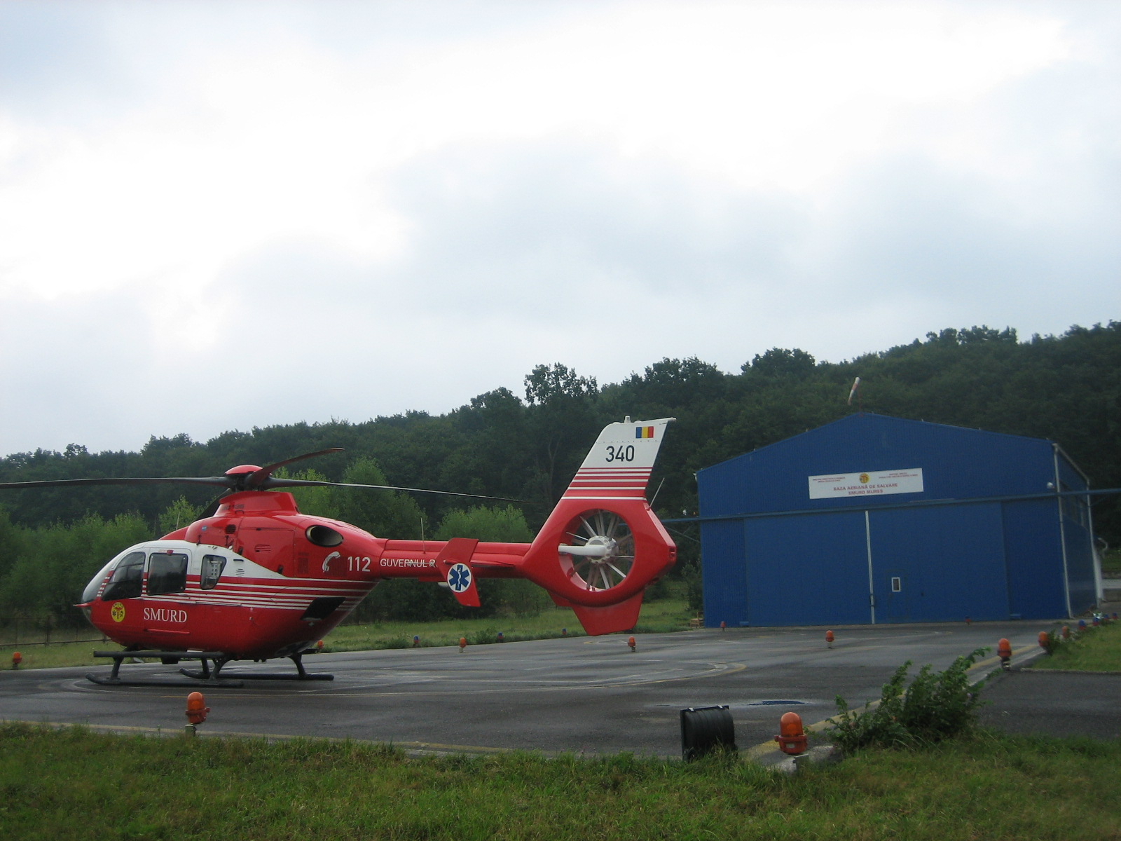 Helicopter of SMURD Târgu Mureş - Marosvásárhely.